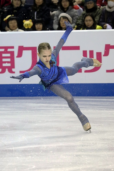 Alexandra Trusova at the Canada Grand Prix 2019